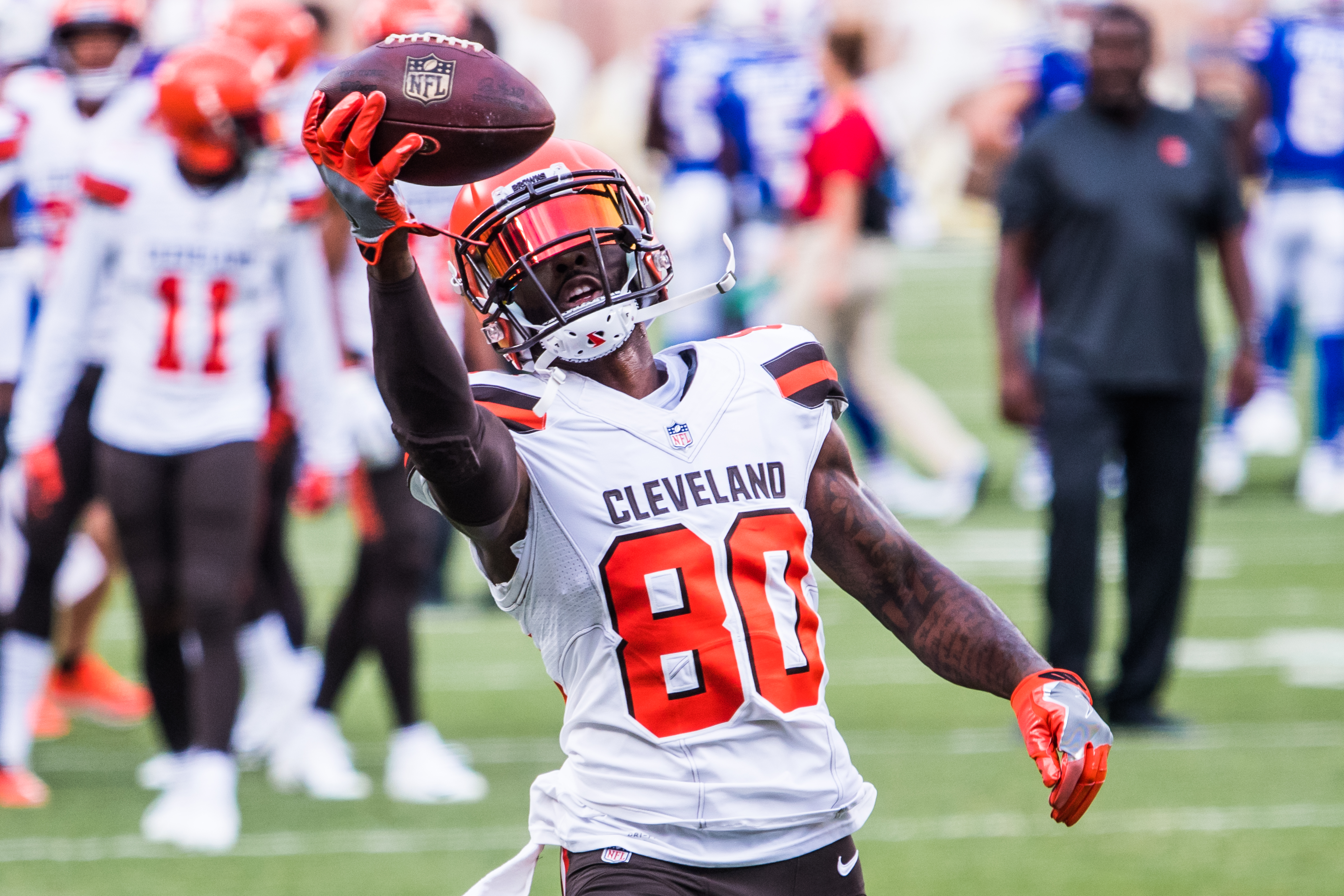 Jarvis Landry